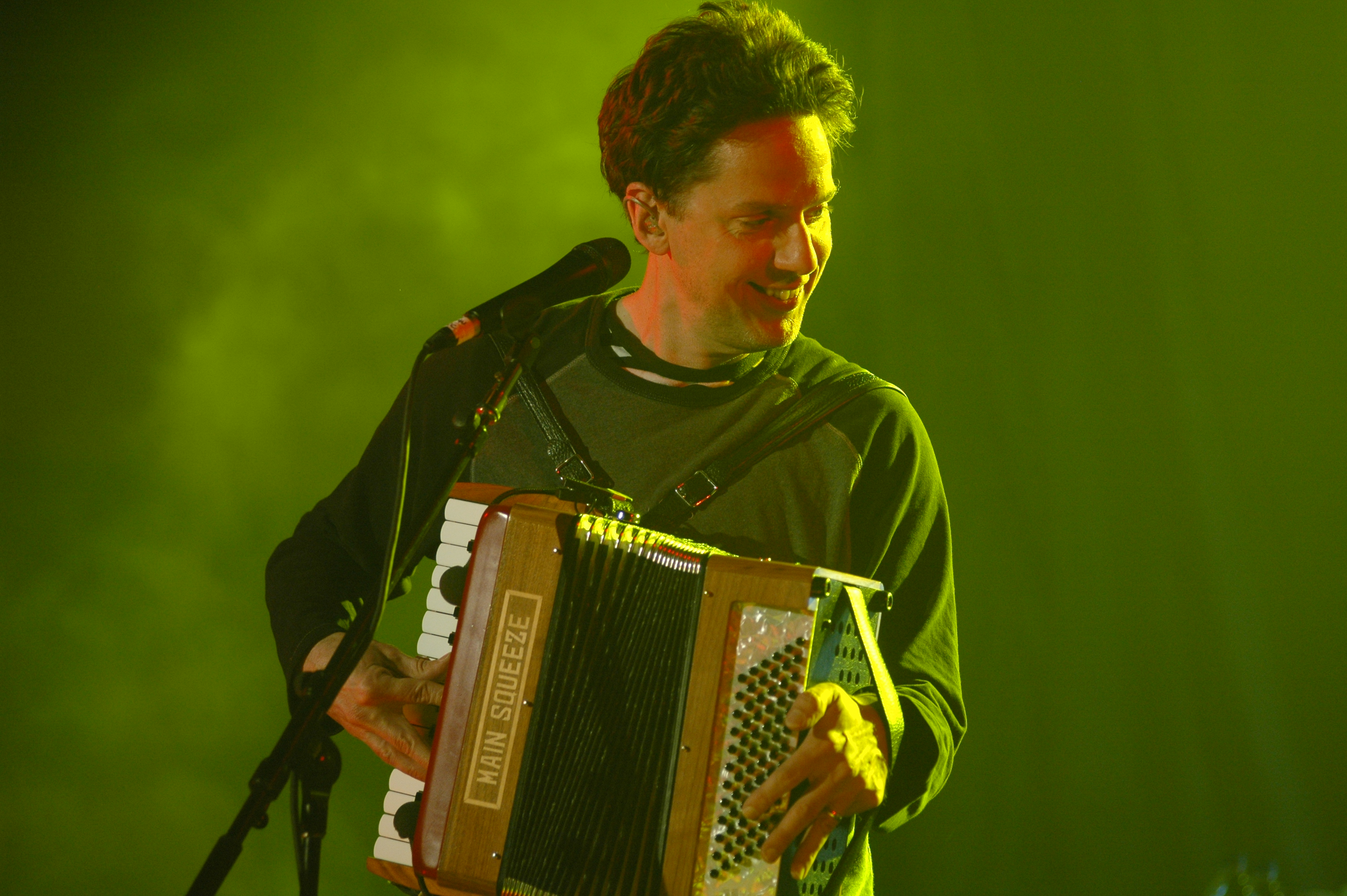 Taken at Revolution, Fort Lauderdale, March 12th 2008